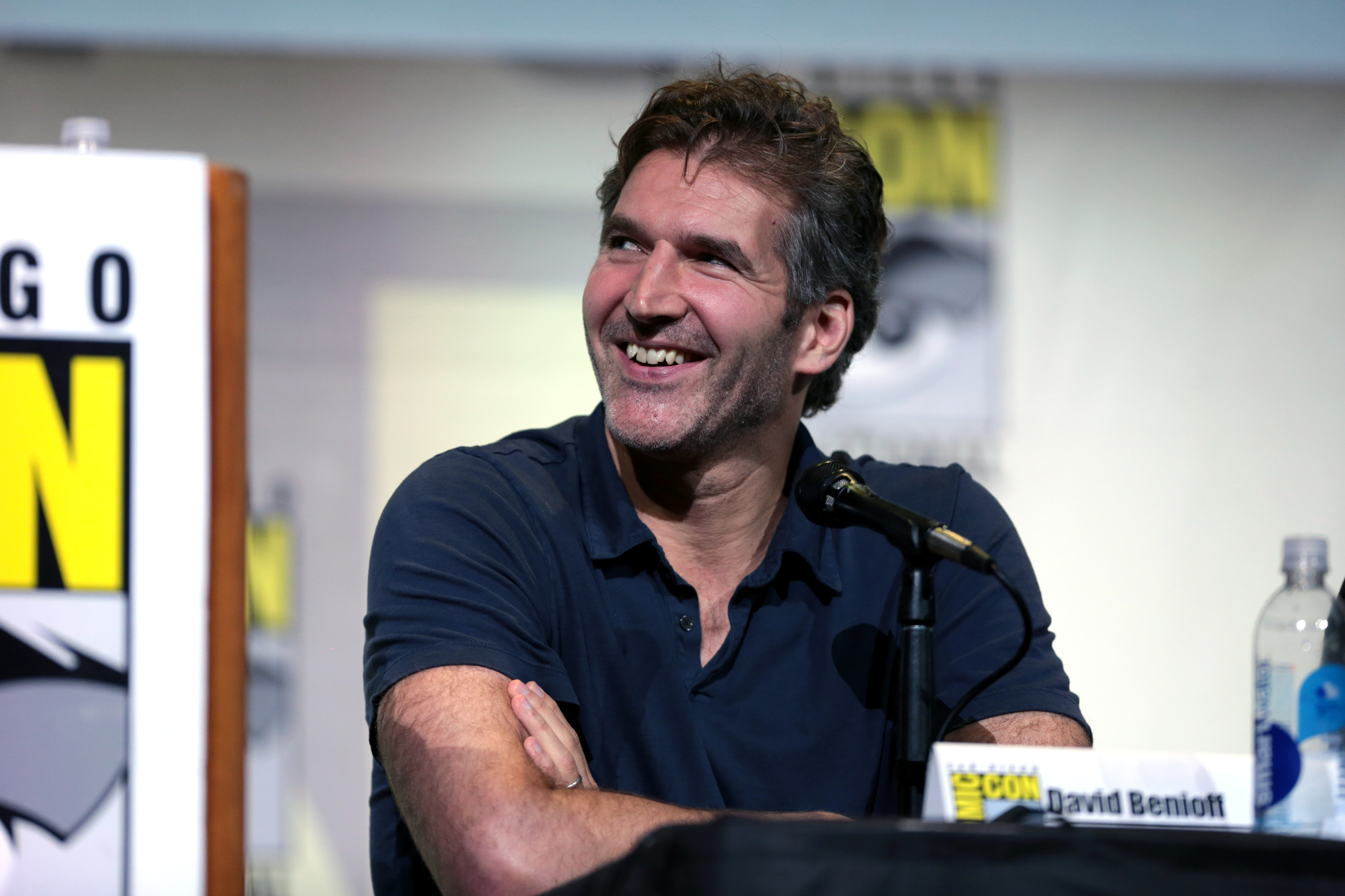 David Benioff speaking at the 2016 San Diego Comic Con International, for "Game of Thrones", at the San Diego Convention Center in San Diego, California.